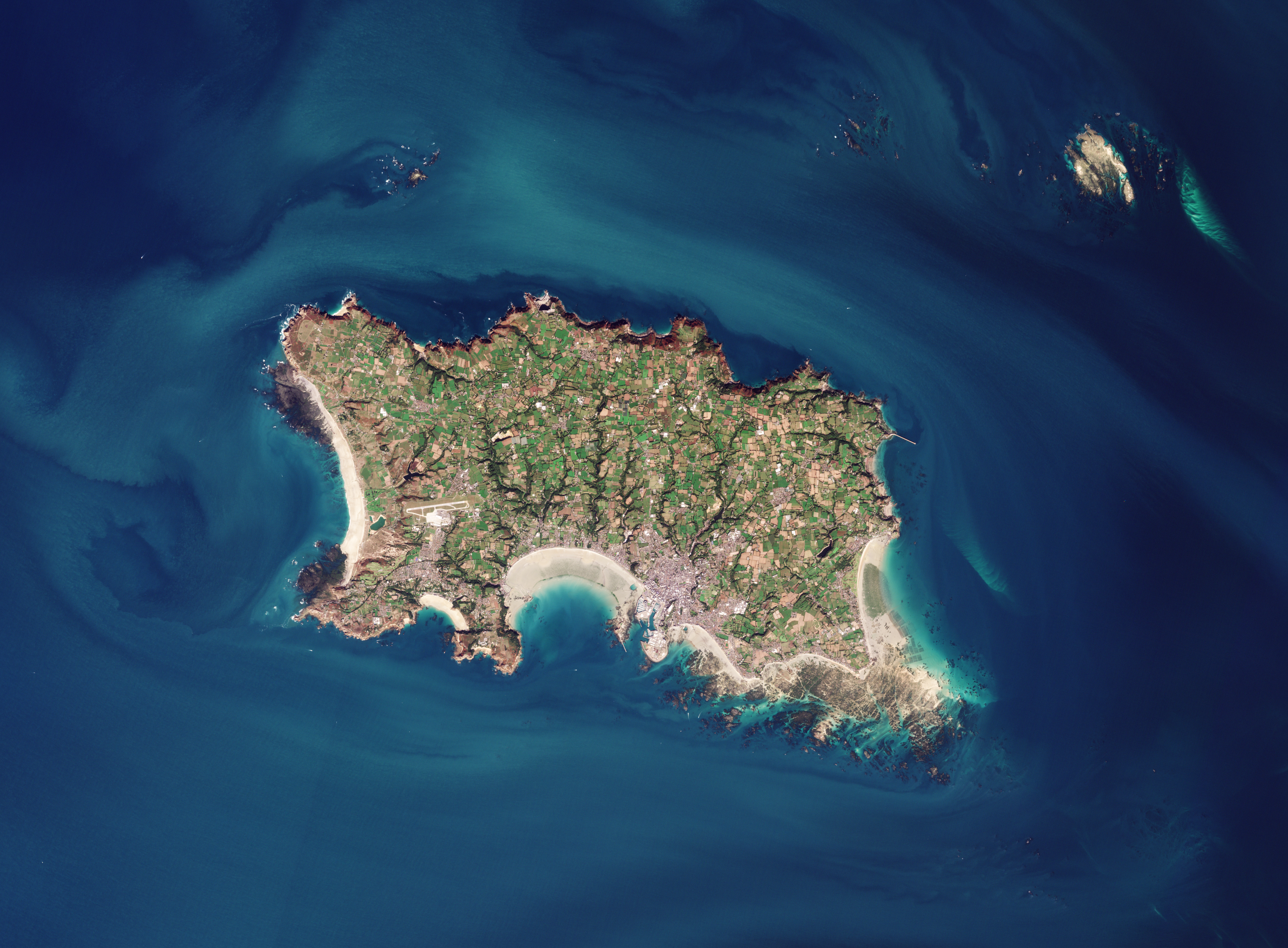 Date: 2018-06-30 Sensor: MSI on Sentinel-2B Resolution: 10m RGB Composites: True color, Band 4-3-2